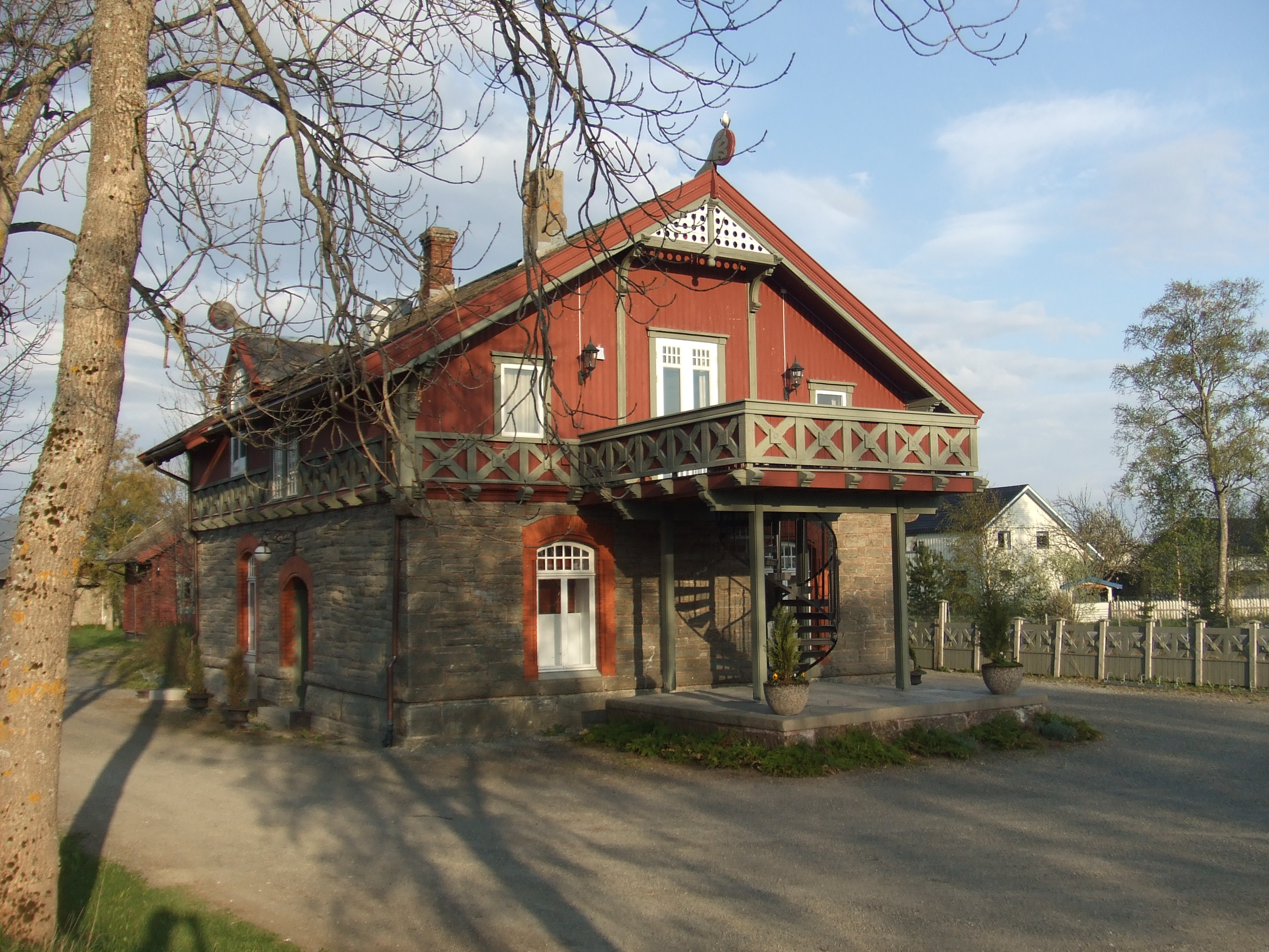 Skatval Station, railway station at Nordlandsbanen in Stjørdal municipality in Nord-Trøndelag, Norway.